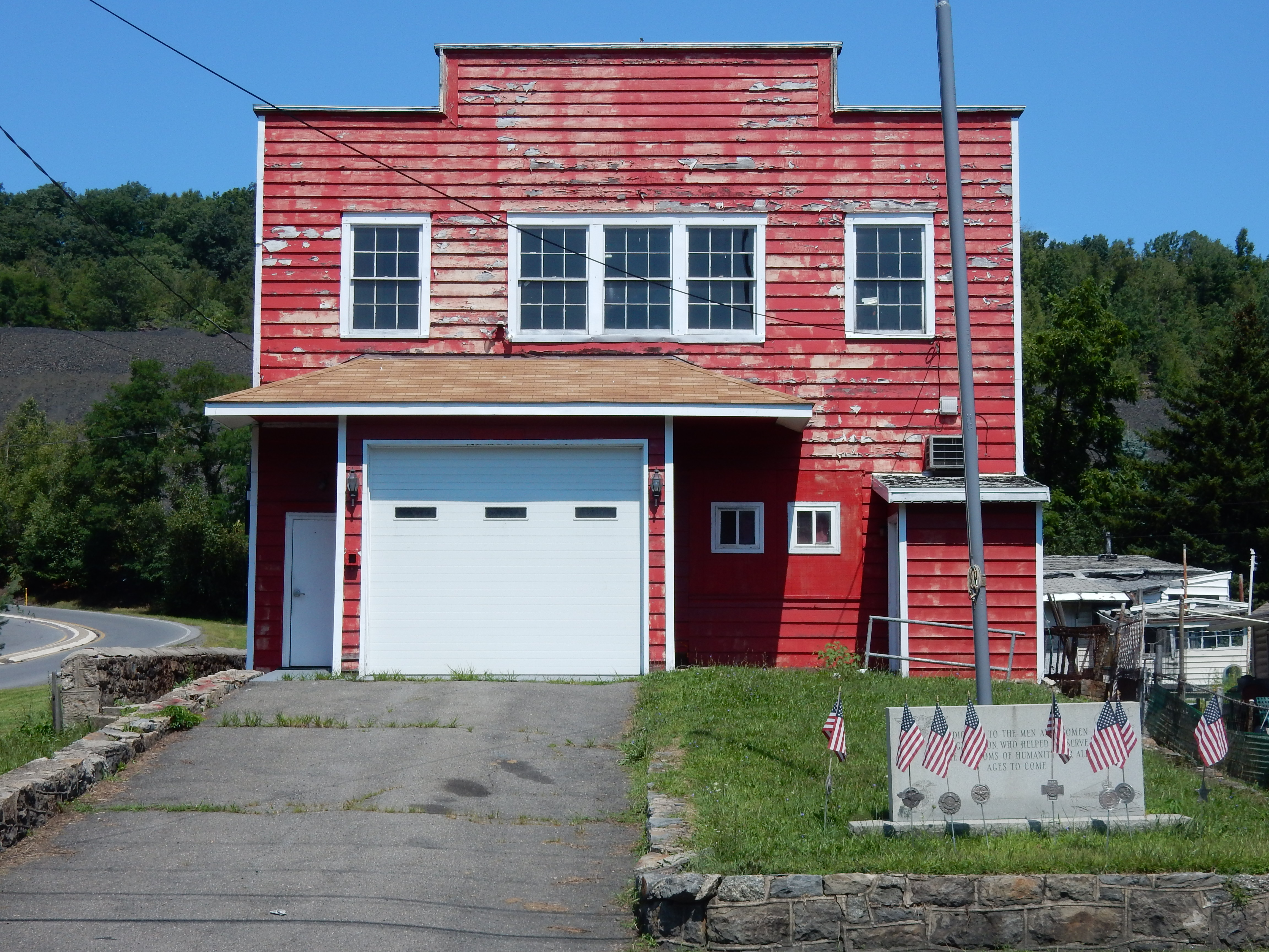 Continental Hose Co. #3, 229 Main St., Gilberton, Schuylkill County, Pennsylvania. Corner of A St.